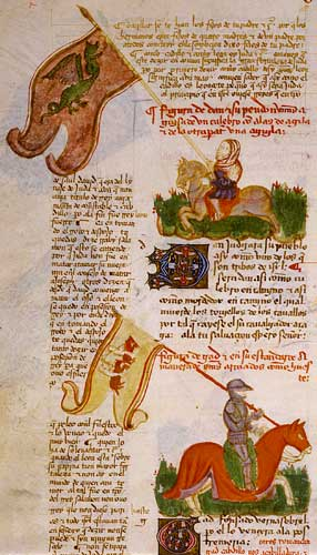 Dan: a knight bears a pinkish-beige banner with the emblem of a winged dragon. The caption reads: 'Figura de Dan y su pendon [...?] a figura de un culebro con alas de agila e de la otra par una aguyla.' Gad: a knight in armor bears a light-yellow banner, with the emblem of two knights armed with bows representing his enemies, in accordance with the biblical text. The caption reads: 'Figura de Gad e en su estandarte del manera de omnes afinados como jineste.'